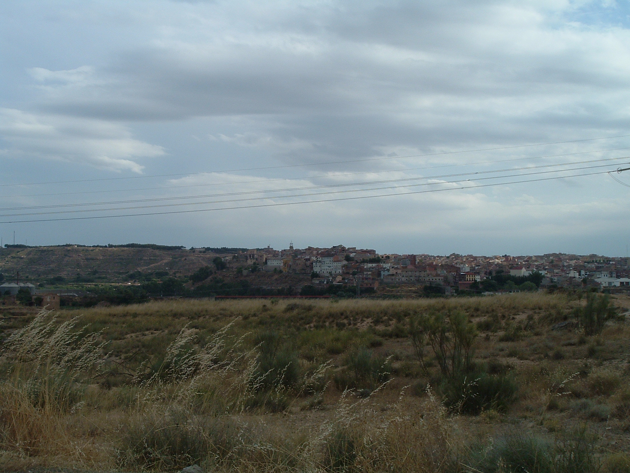 Casp. Village in Land of Aragó -Aragón- Aragon Crown.